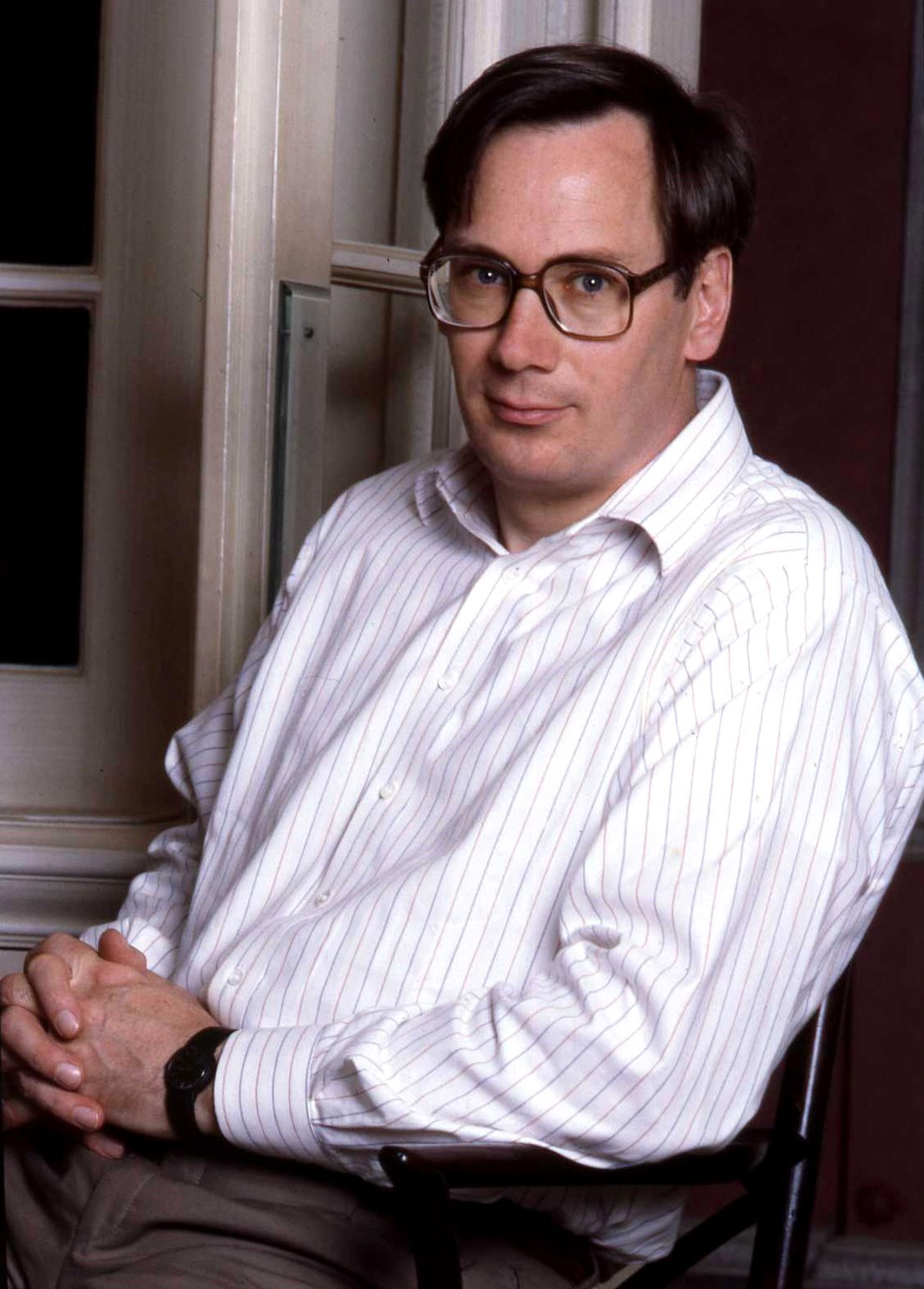 portrait of HRH The Duke of Gloucester